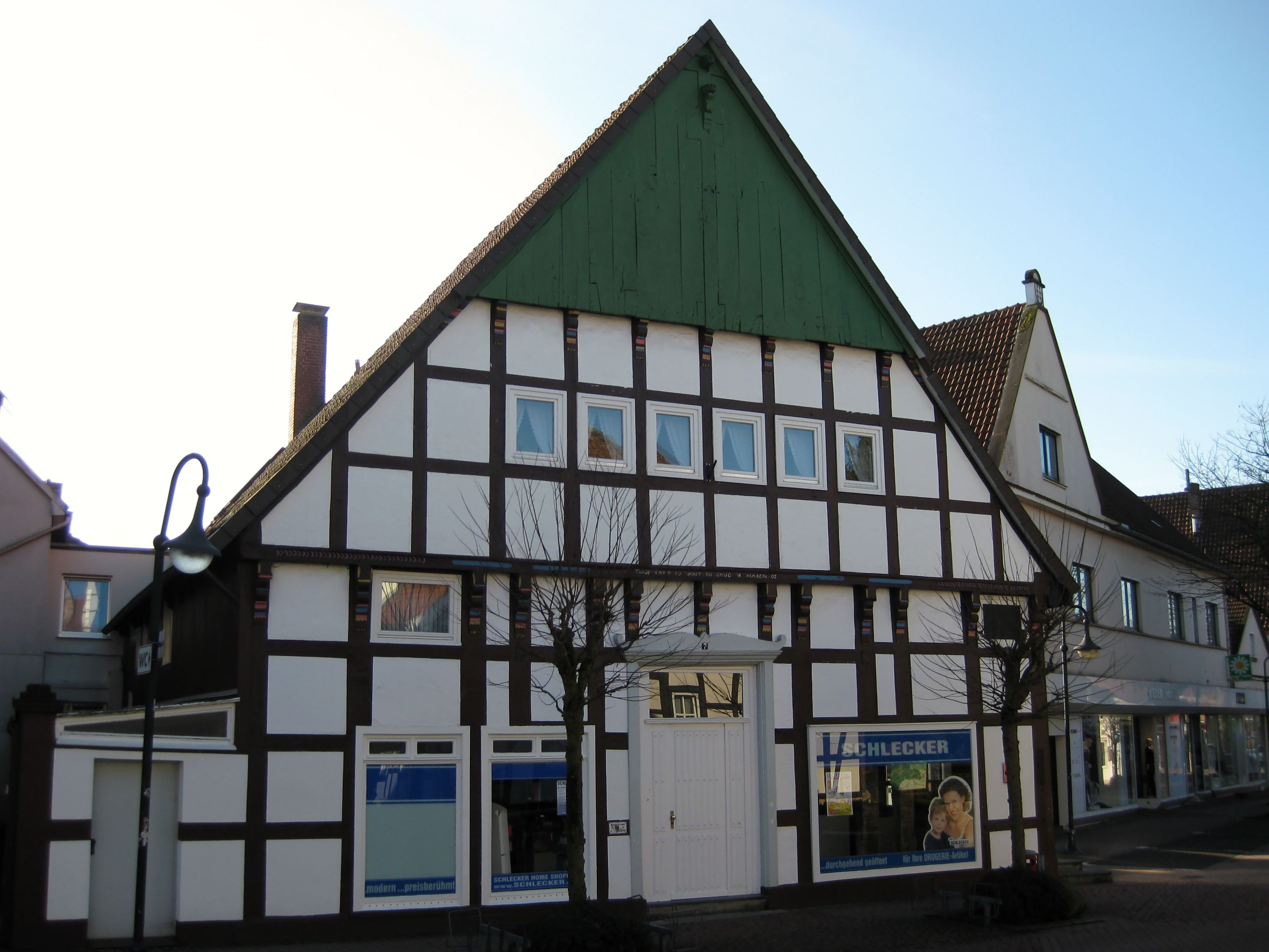 Münsterstraße 7 in Versmold